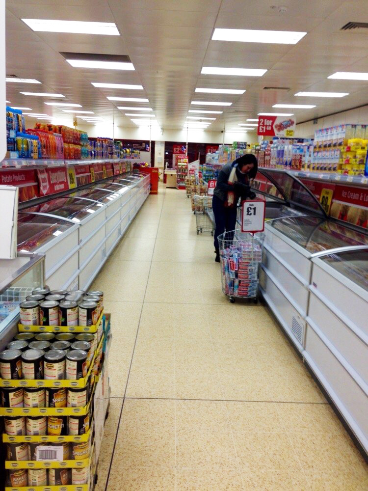 The interior of an Iceland supermarket, showing the utilisation of freezer cabinets, which the store is known for.